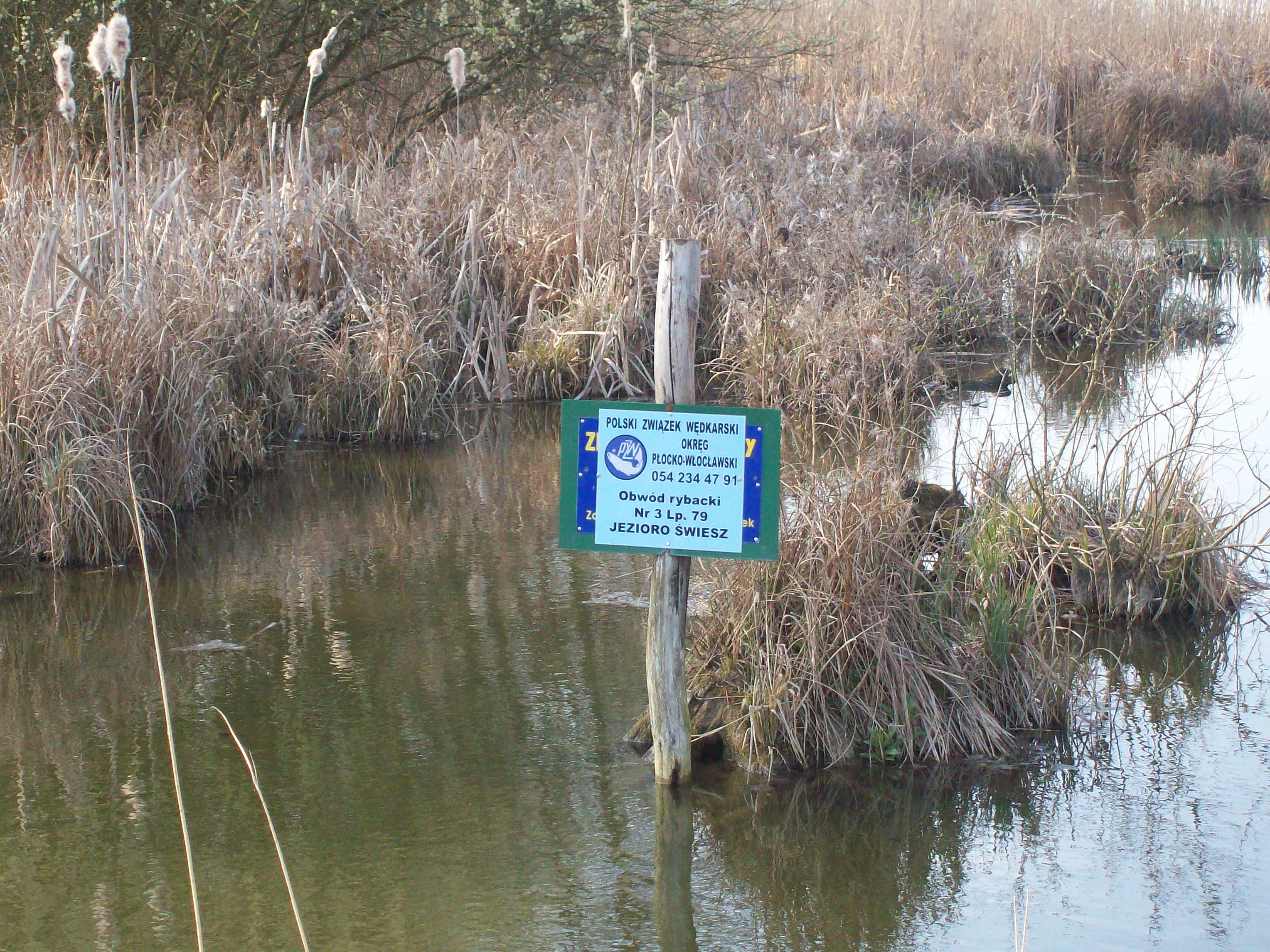 Jezioro Świesz - information table